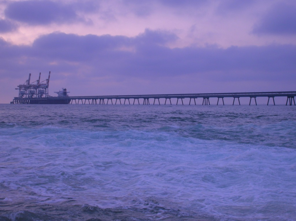 A purple sunset sea near the Hadera power plant